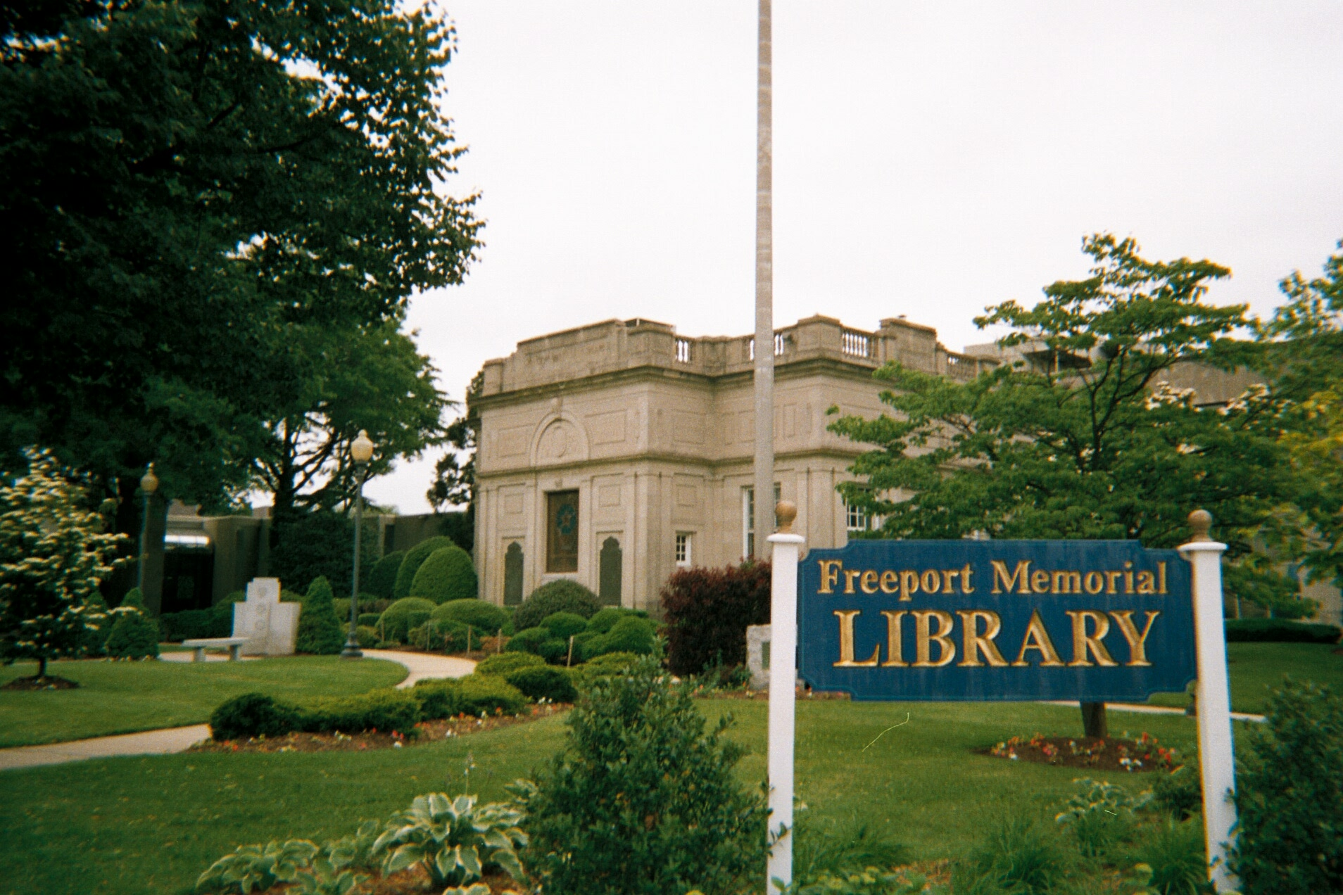 Sign at the southeast corner of the Freeport Memorial Library in Freeport, New York.